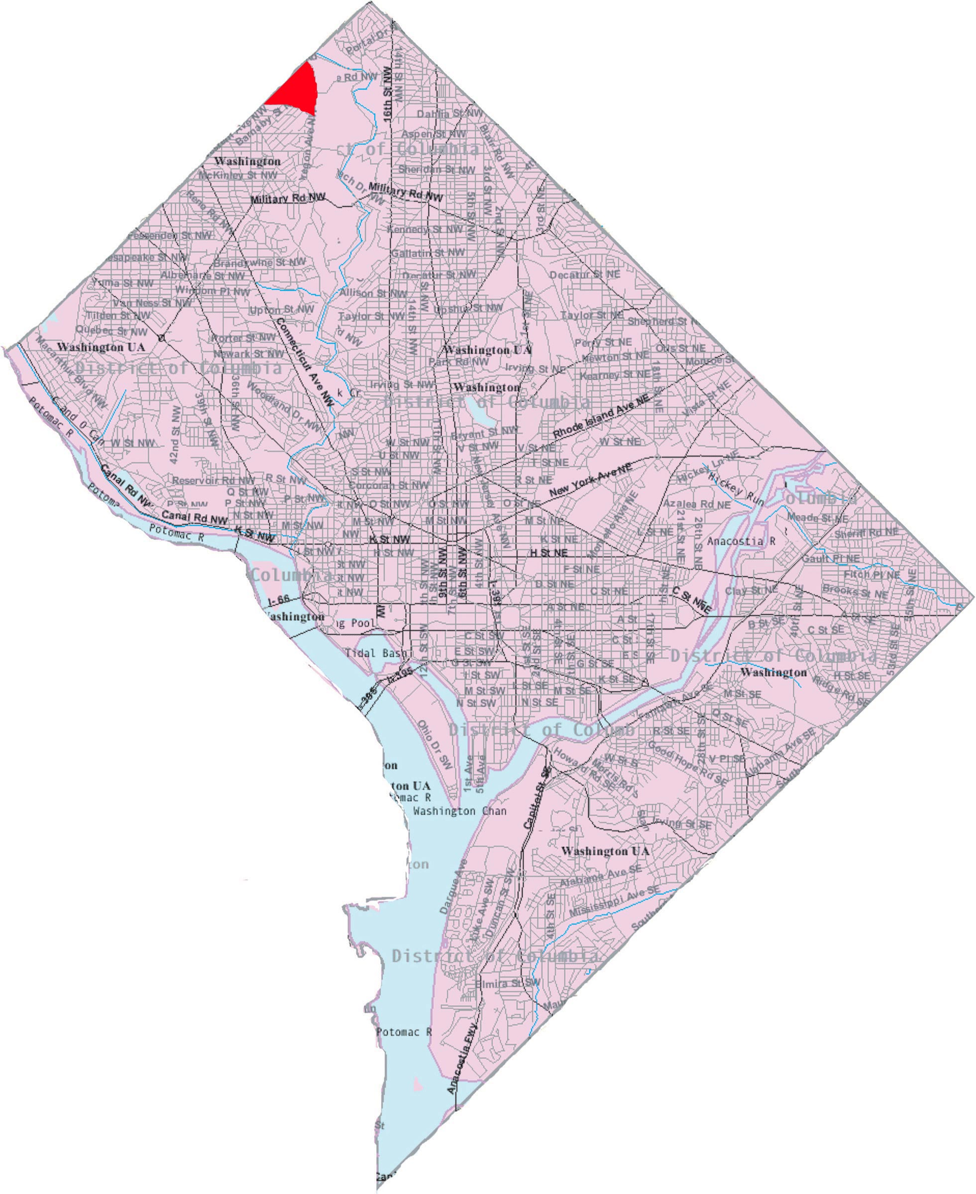 This image is a modified version of a self-generated reference map from the U.S. Census Bureau's American Factfinder at by Wikipedia user Msclguru.